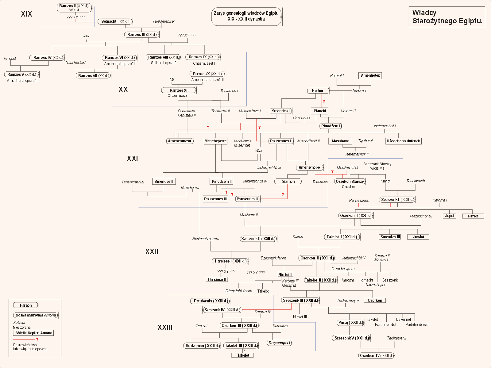 Dynasties of Ancient Egypt XIX-XXIII